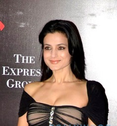 Ameesha Patel at 21st Annual Screen Awards